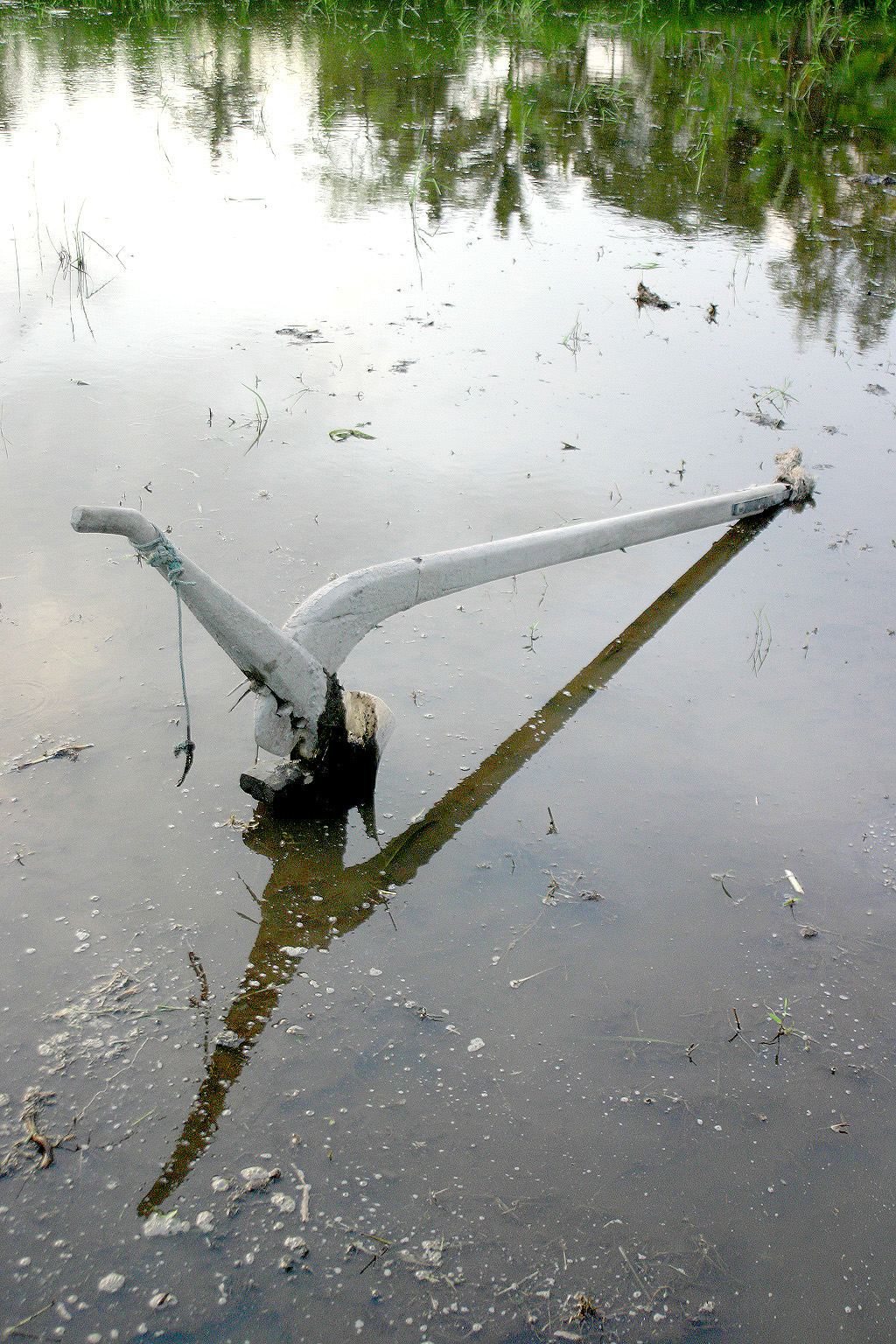 Javanese ricefield plough